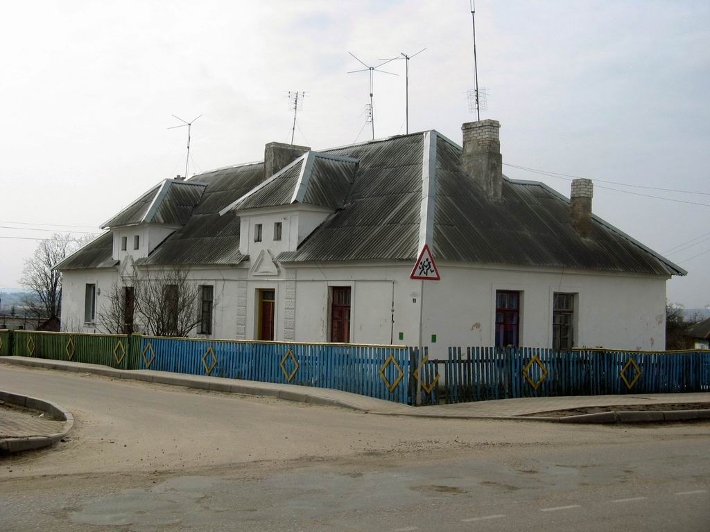 Residential one-story houses of the Polish period